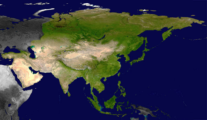 Satellite view of the Asian continent